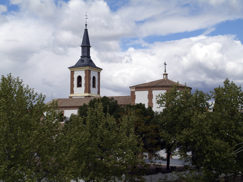 Santa Maria church of Aravaca, Madrid (Spain)